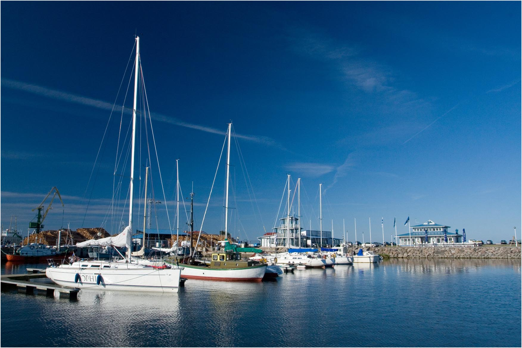 Roomassaare Yacht Harbour